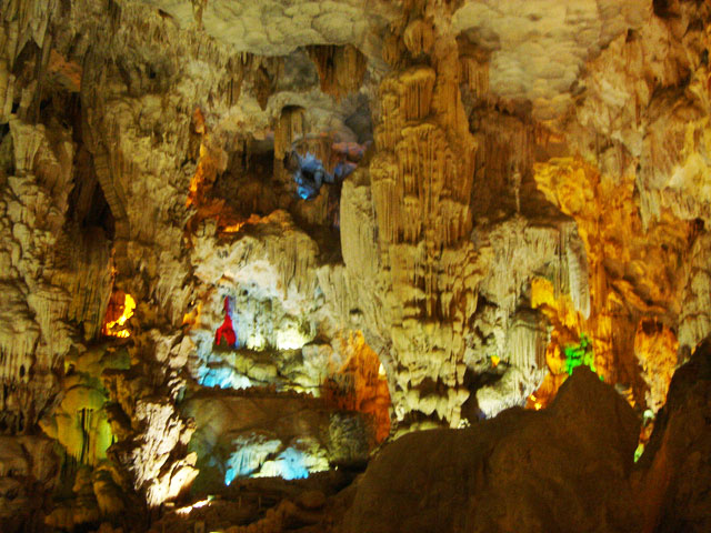 Commonly refered to as Wooden Stakes Caves. This cave is famous for being used by the legendary General Tran Hung Dao as a trap for the attacking Mongolian army. Wooden stakes were set up within to trap the Mongols against the retreating tide.